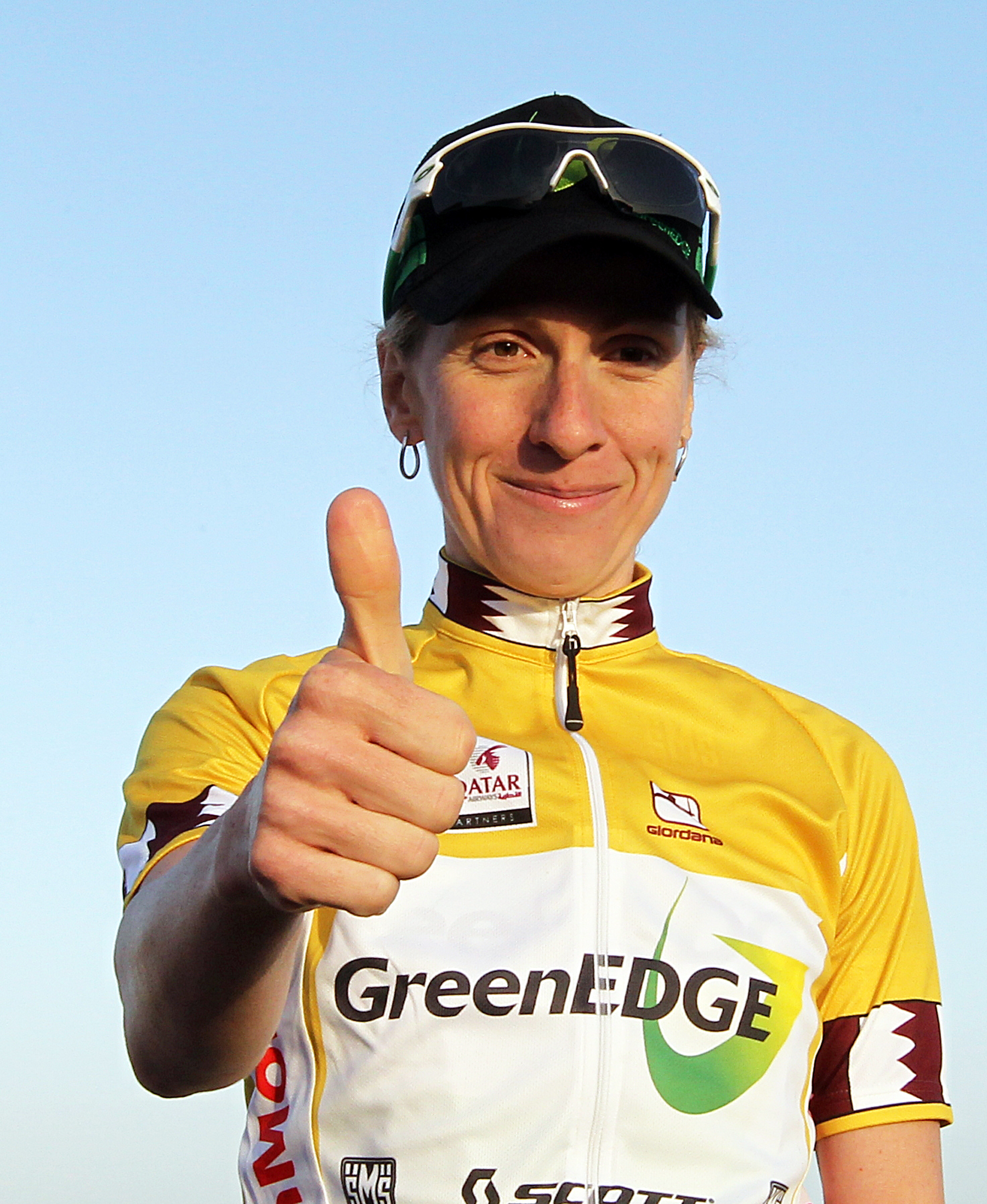 Germany's Judith Arndt gives a thumbs up after winning the Ladies Tour of Qatar.